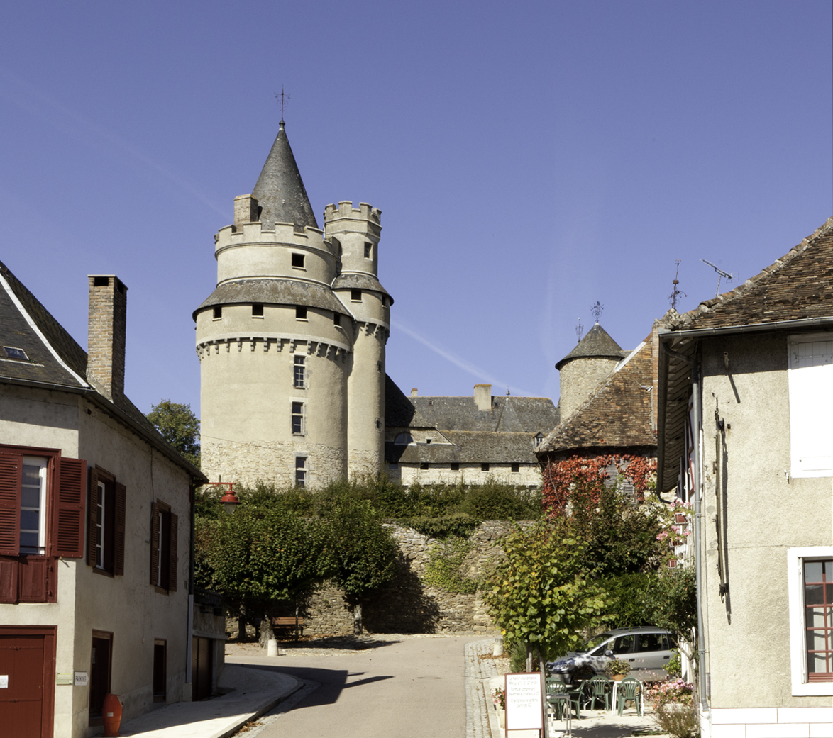 View on the Castle of Caussac-Bonneval